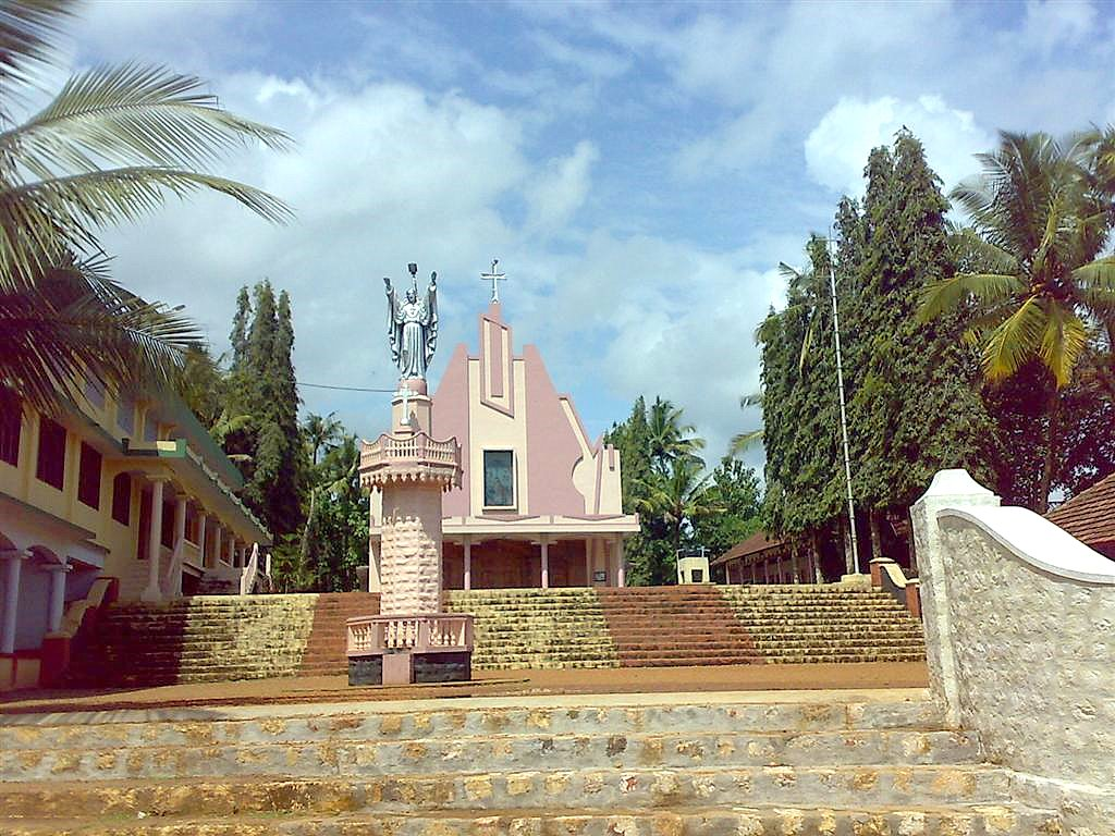 neezhoor